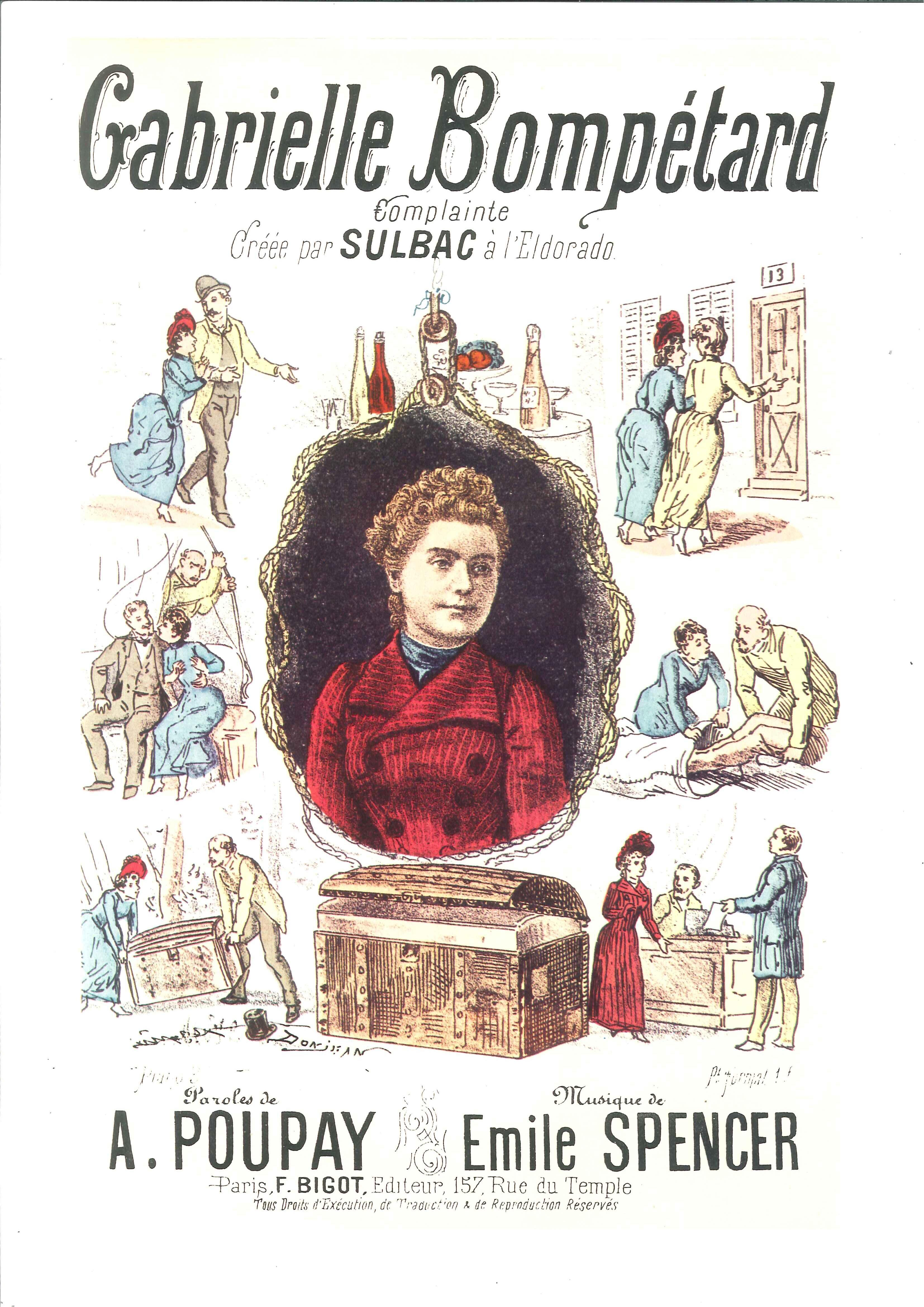 Poster for the song "Gabrielle Bompétard" inspired by the affair called malle à Gouffé in France.